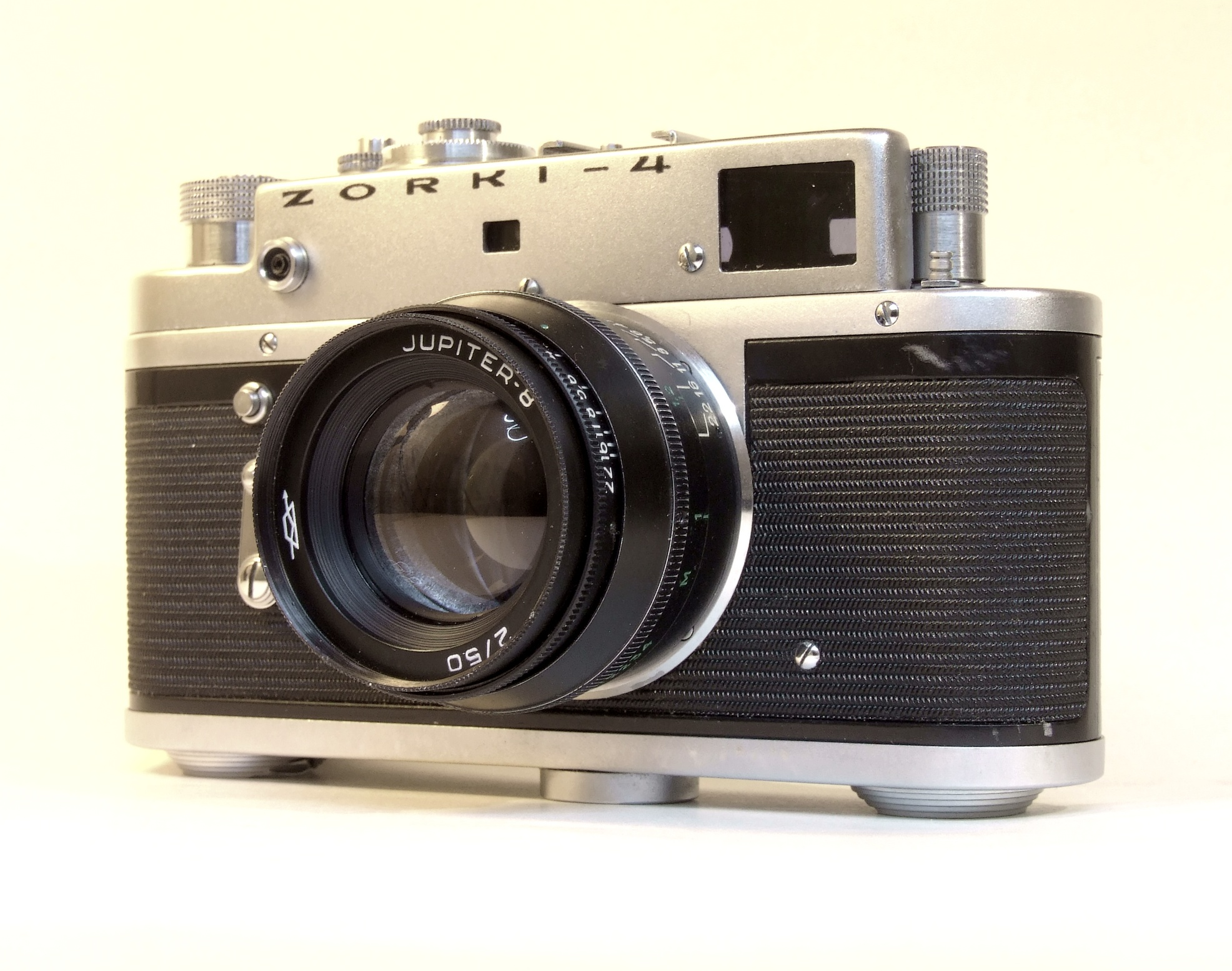 A Zorki 4 camera Author: Mohylek 14:43, 10 January 2007 (UTC)